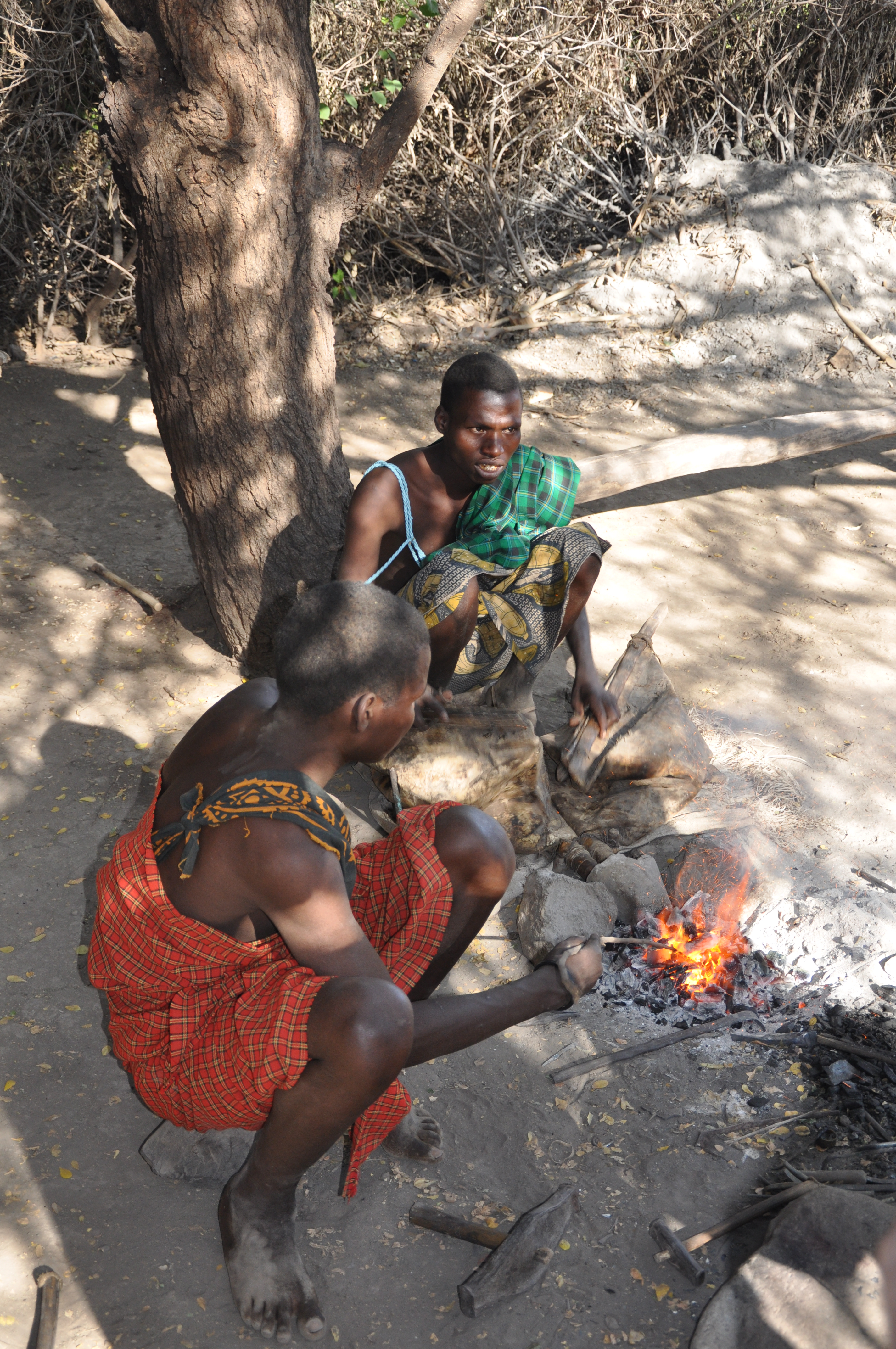 Datoga Metal Works, Tanzania